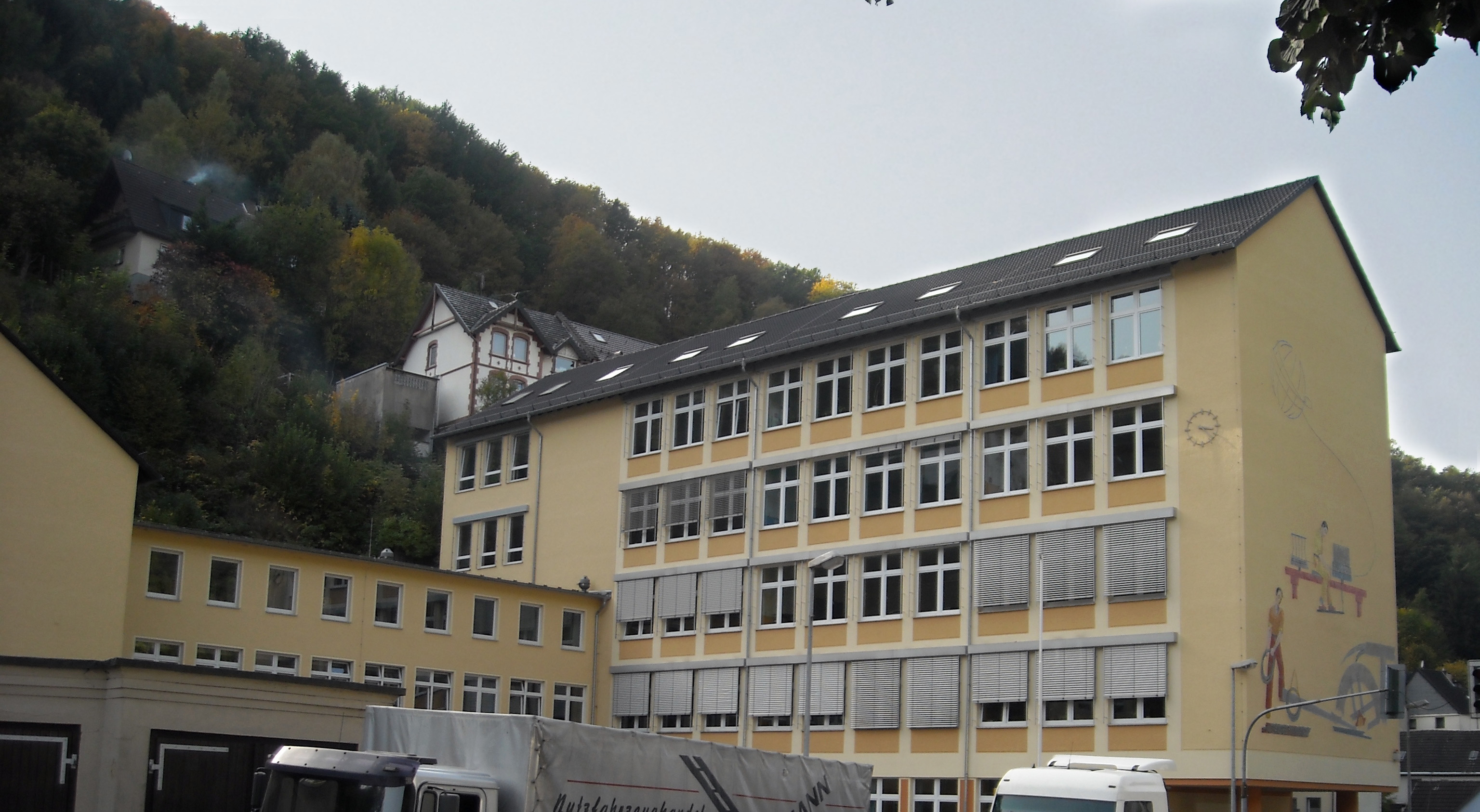 Richard Schirrmann-Realschule, Altena